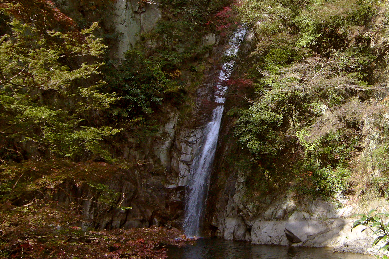 Nunobiki Waterfalls in Kobe, Hyogo prefecture, Japan